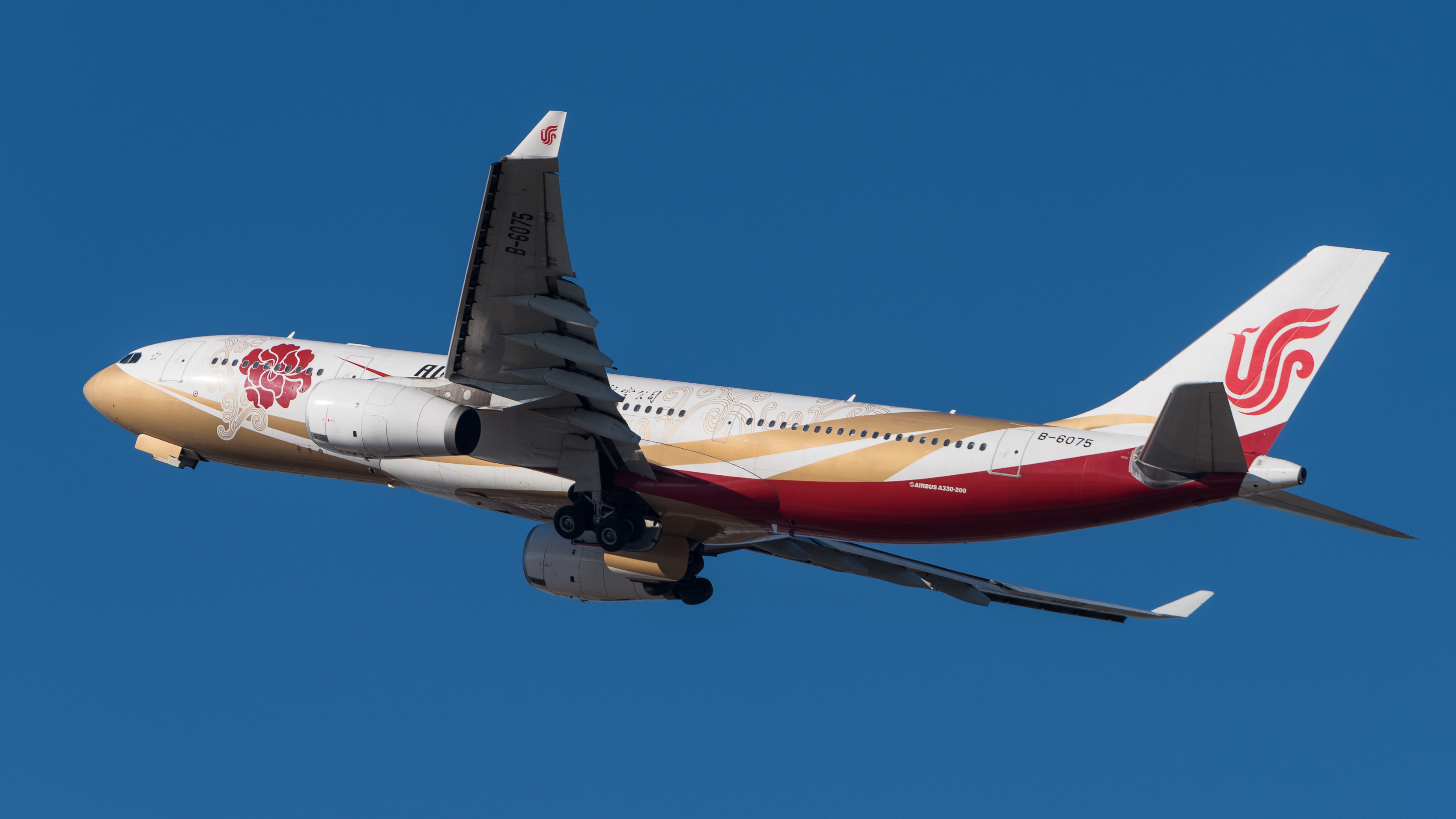 Air China Airbus A330-243 (reg. B-6075, msn 785) at Munich Airport (IATA: MUC; ICAO: EDDM) departing 26L.